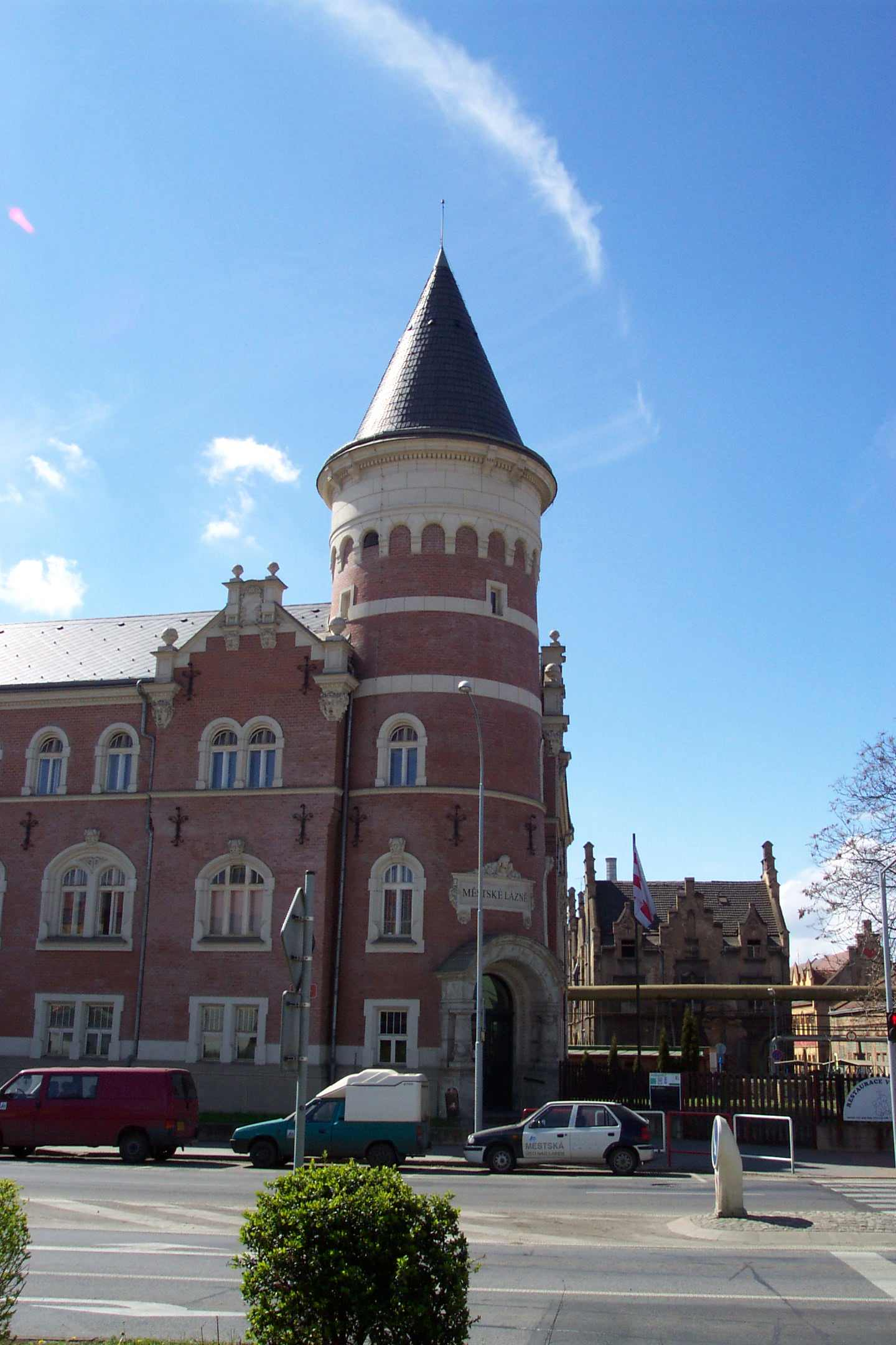 Municipal spa in Ústí nad Labem